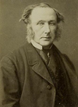 Image of Thomas Douglas Forsyth (1827-1886), British diplomat and explorer. Photo circa 1870.